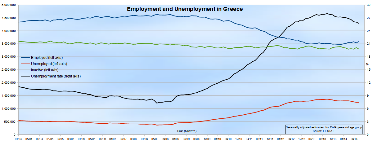 Chart of number of people employed, unemployed, inactive over time and of unemployment rate over time (monthly; January 2004 - September 2014) in Greece; age group 15-74 years old; seasonally adjusted data; source: Hellenic Statistical Authority (EL.STAT.).